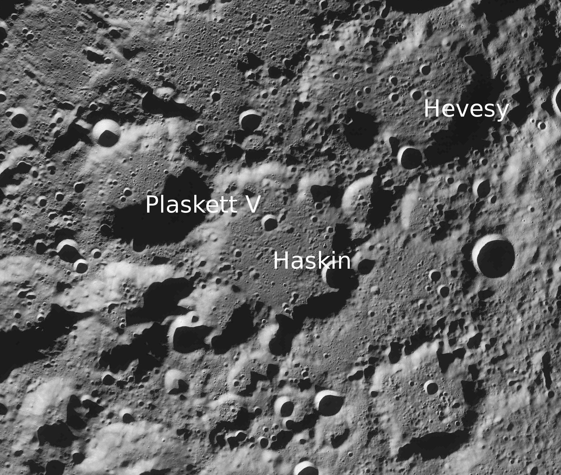 Moon crater Haskin and surroundings (north at top; detail of LRO - WAC north pole mosaic)